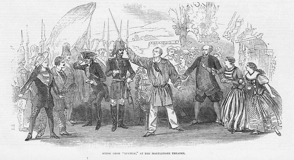 Performance of 'Lucille' at the Marylebone Theatre - scanned from a print in The Illustrated Sporting and Dramatic News (1848)